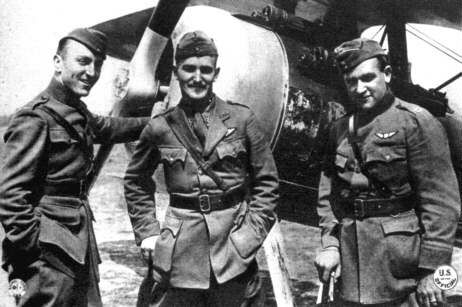 (l. to r.) Eddie Rickenbacker, Douglas Campbell, and Kenneth Marr of the 94th Aero Pursuit Squadron of The United States Air Corps pose next to a Nieuport fighter. Official US Army Image